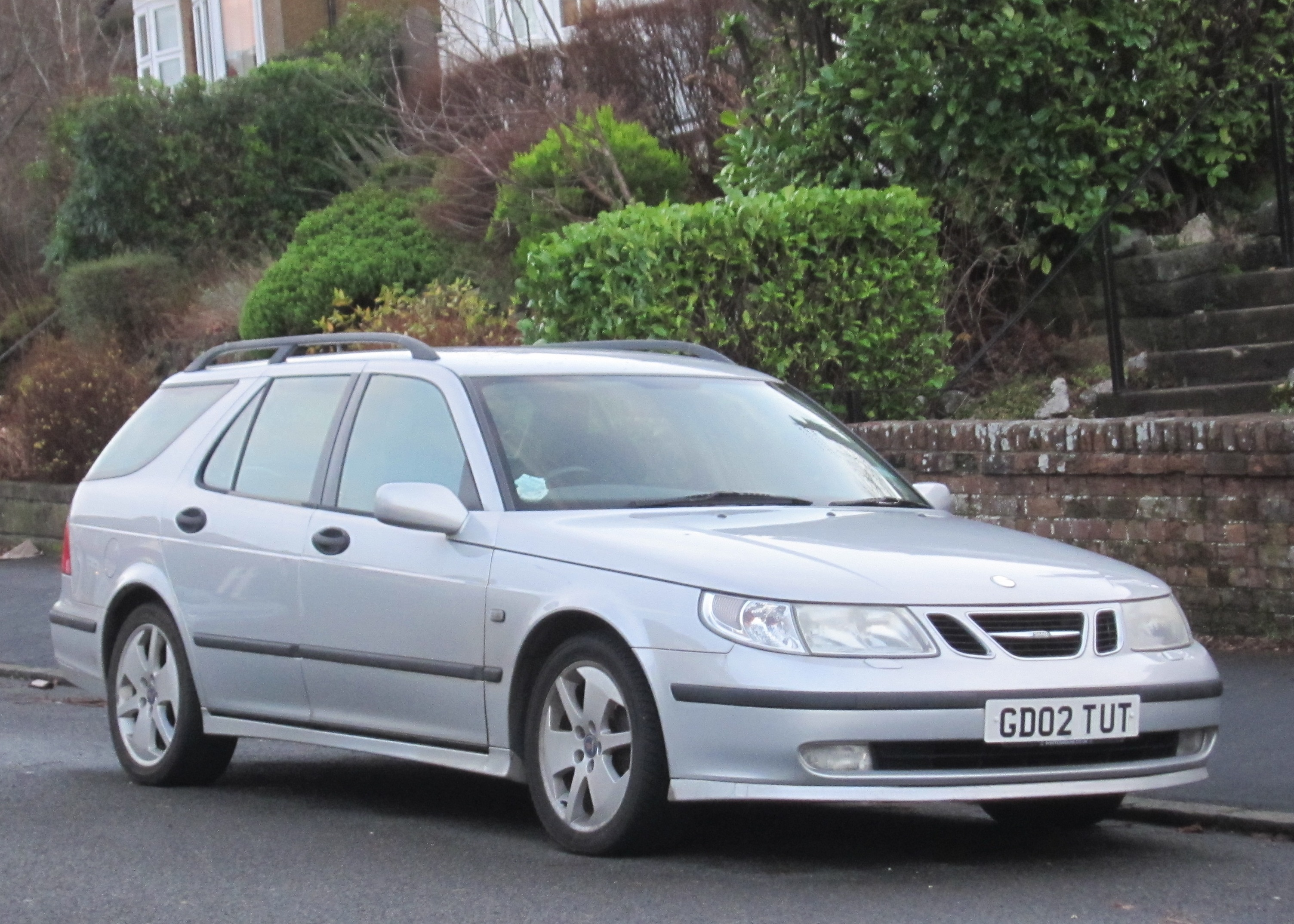 Saab 9-5 Kombi diesel 2200cc in Glasgow (near "Pond") License plate has been changed for anonymisation purposes but place and date codes remain correct